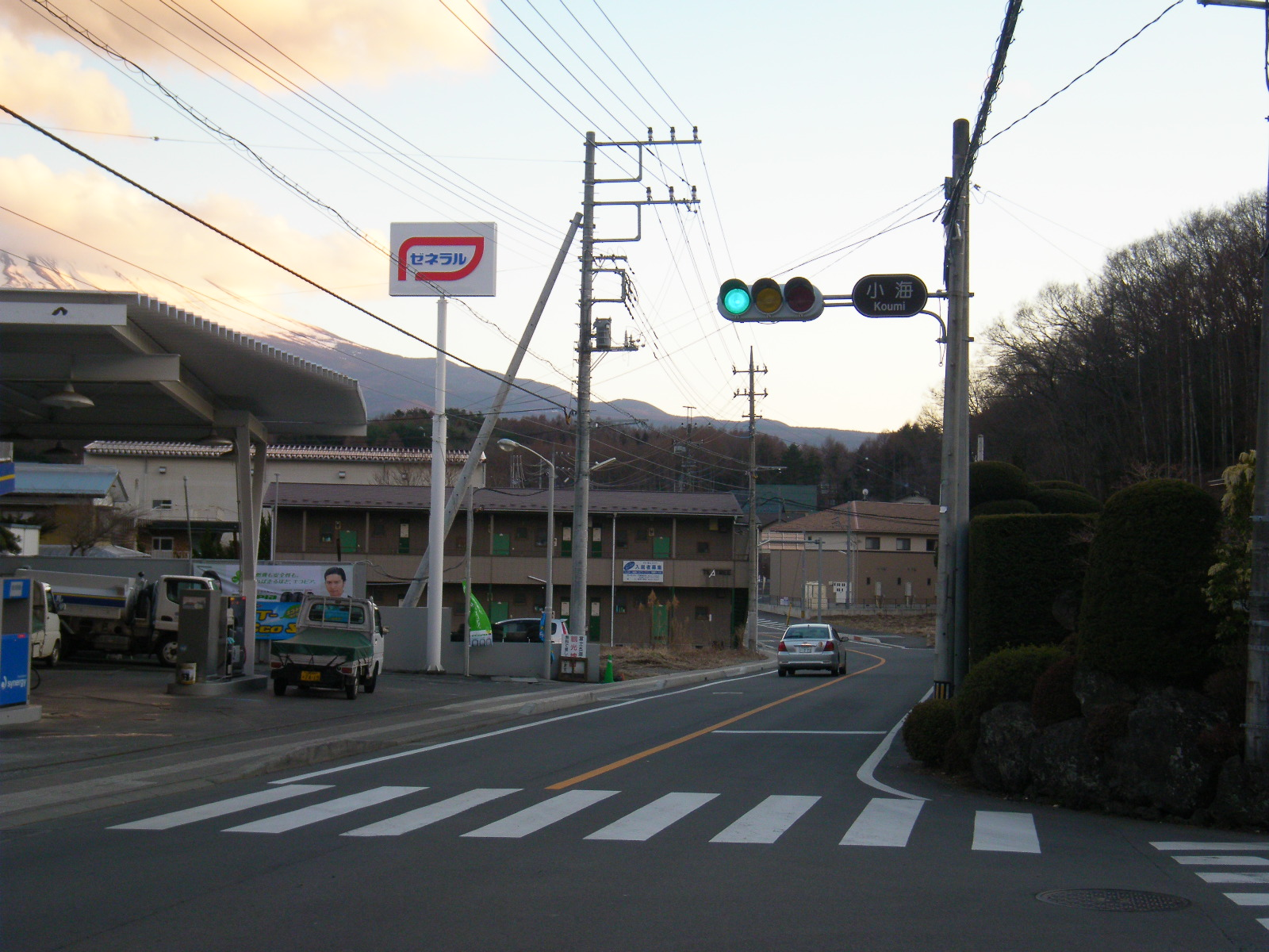 Yamanashi Prefectural Road 714 Narusawa-Fujikawaguchiko Line at the Koumi Crossing. Katsuyama, Fujikawaguchiko, Yamanashi Prefecture, Japan.